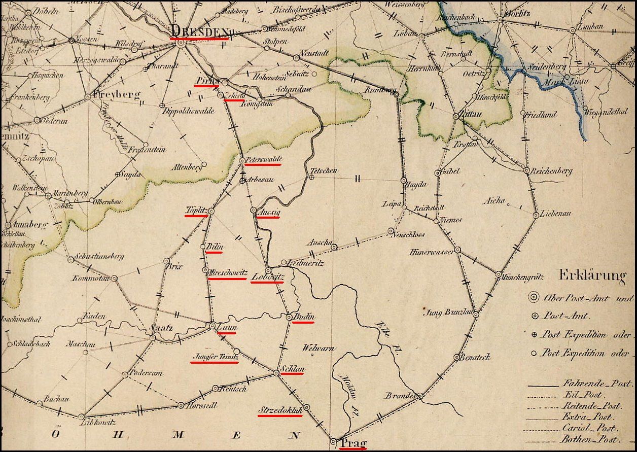 old map of the post-routes from Dresden to Prague.